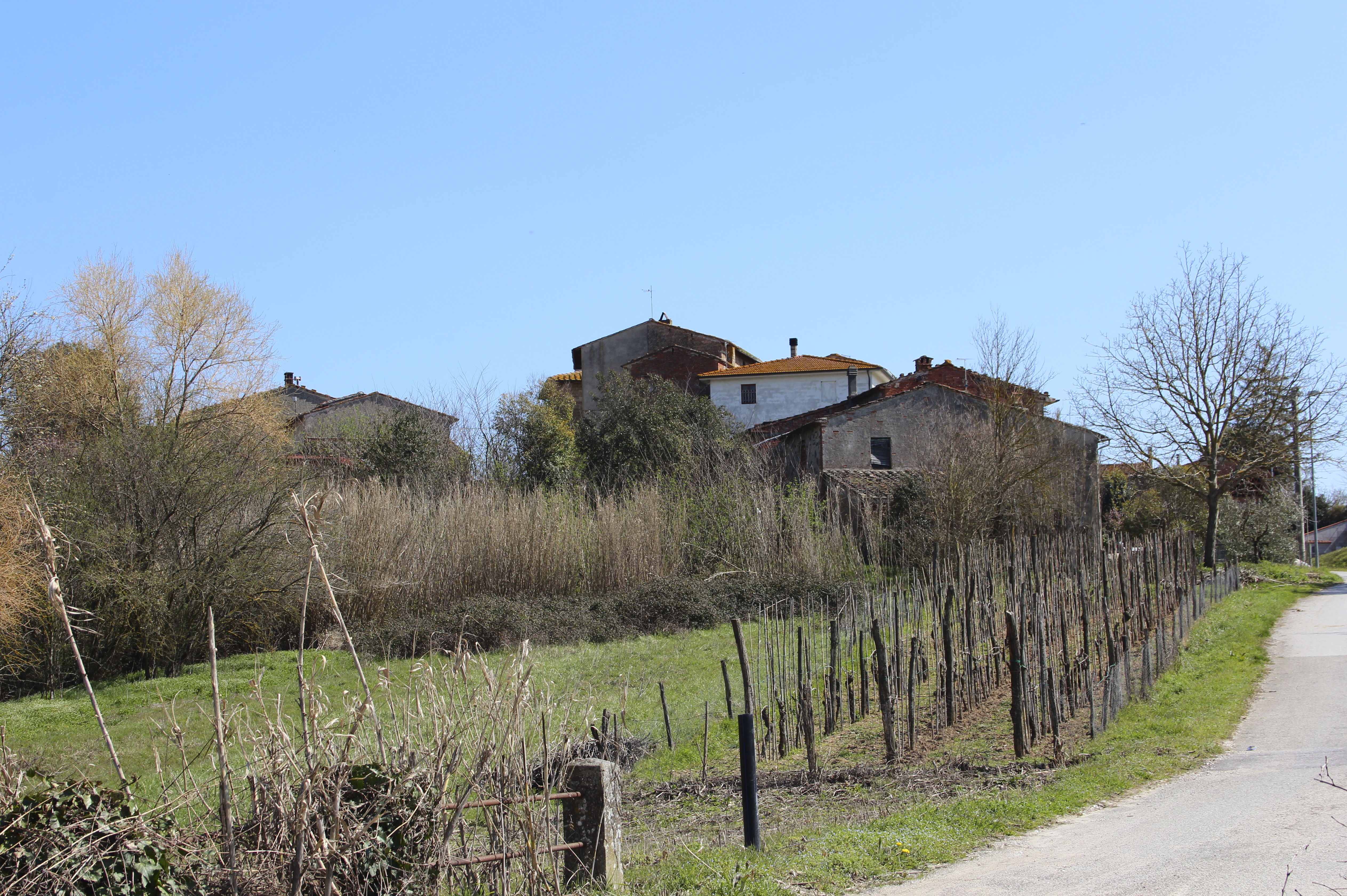 Tavolaia, hamlet of Santa Maria a Monte, Province of Pisa, Tuscany, Italy